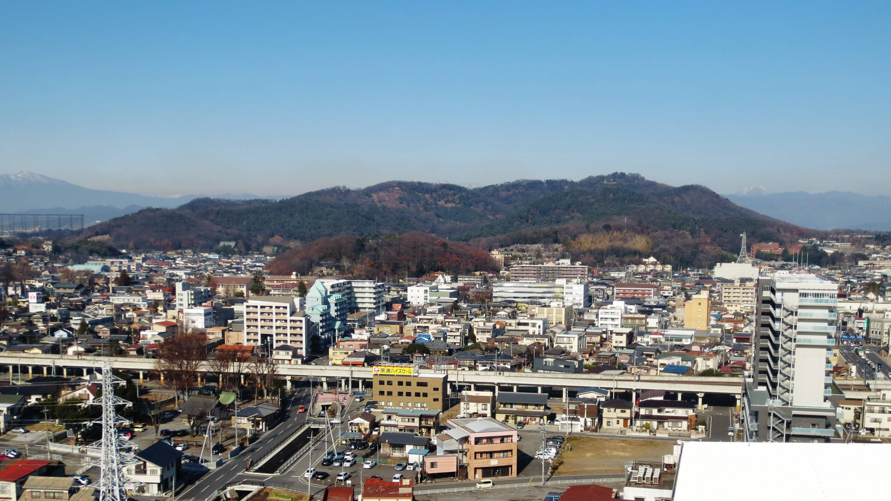 Mount Nitta Kanayama.